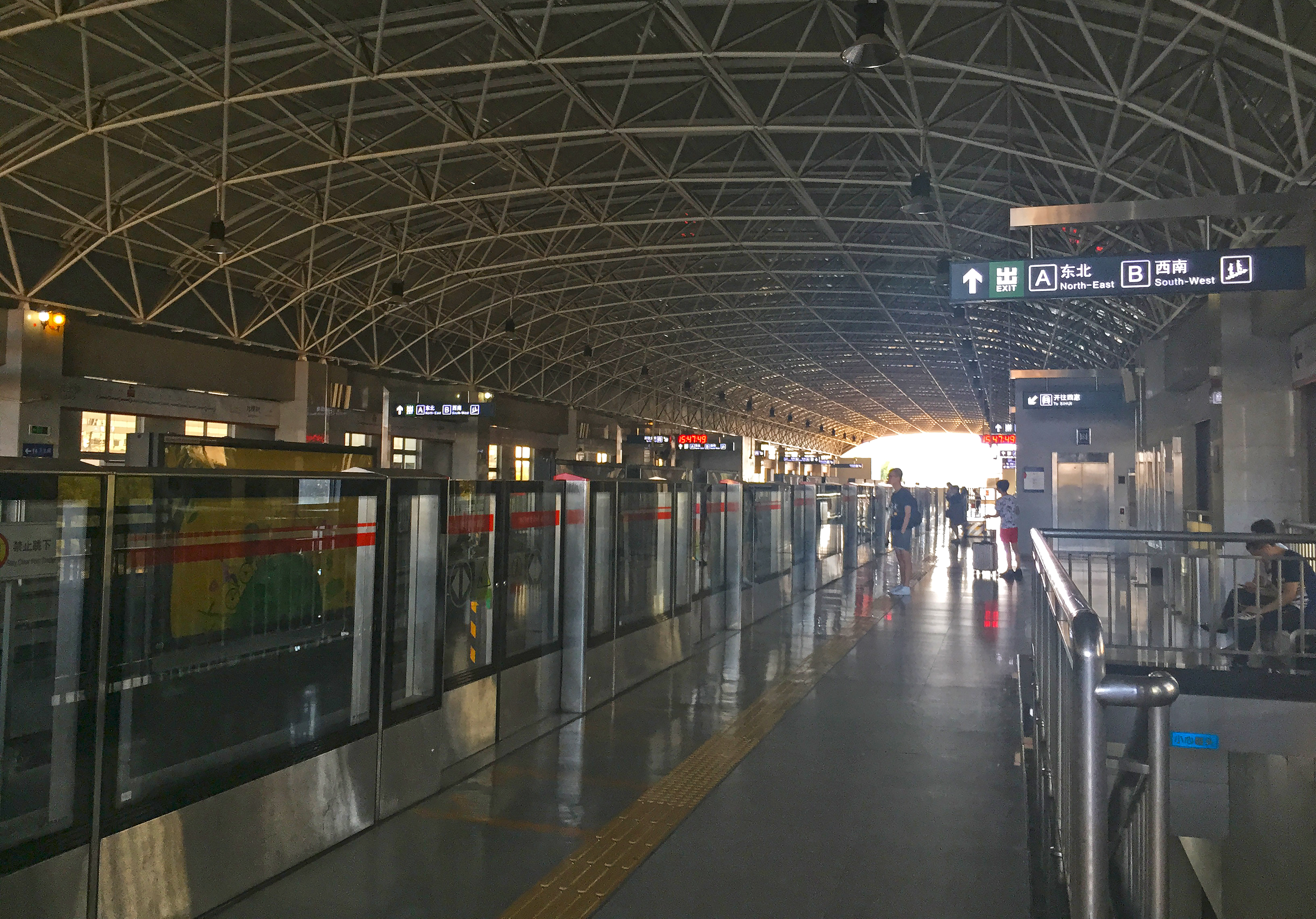 Revised visual system...